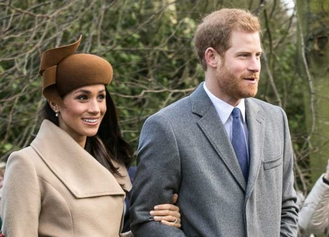 Prince Harry and Meghan Markle with other members of the royal family going to church at Sandringham on Christmas Day 2017